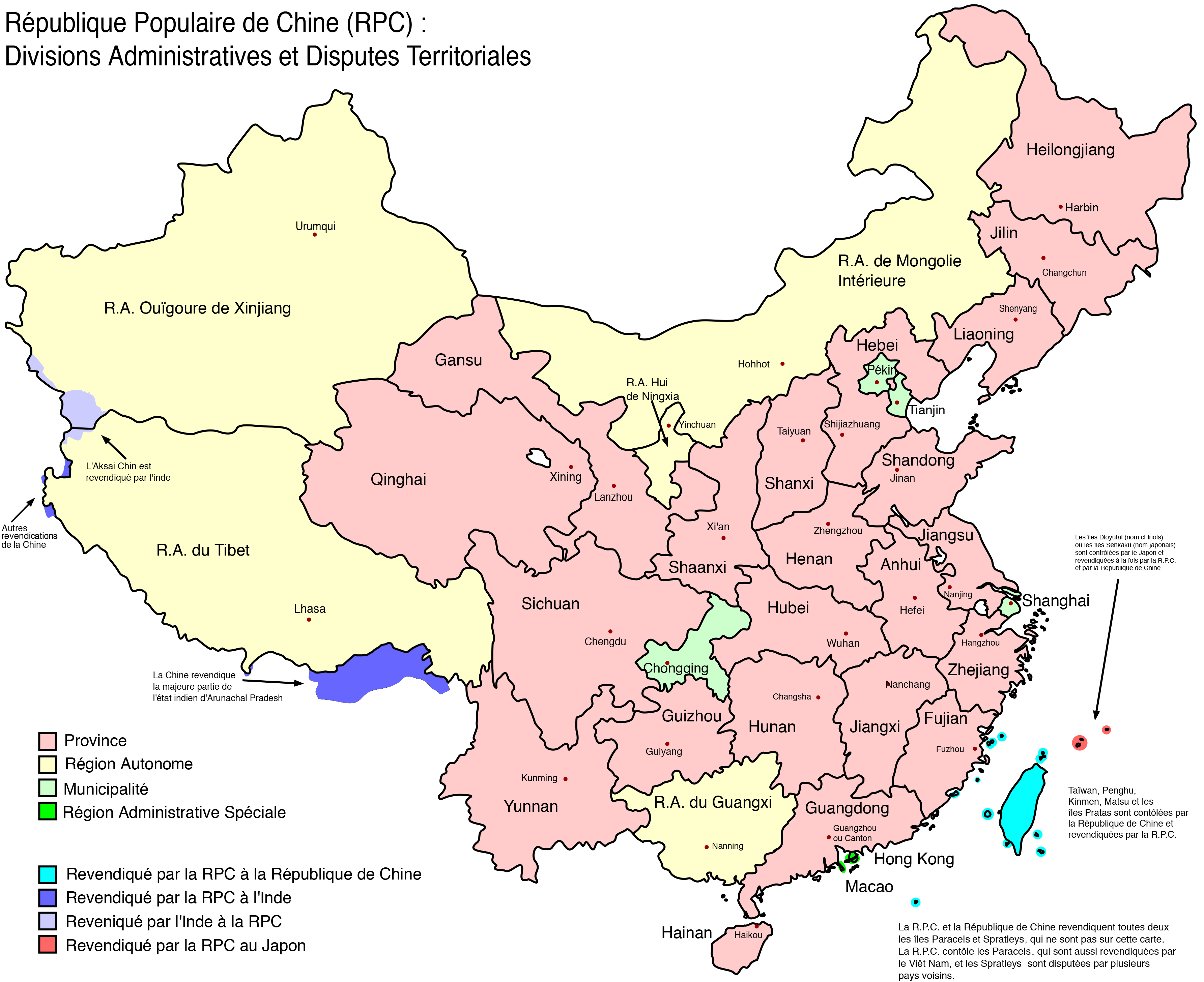 Administrative map of China in French